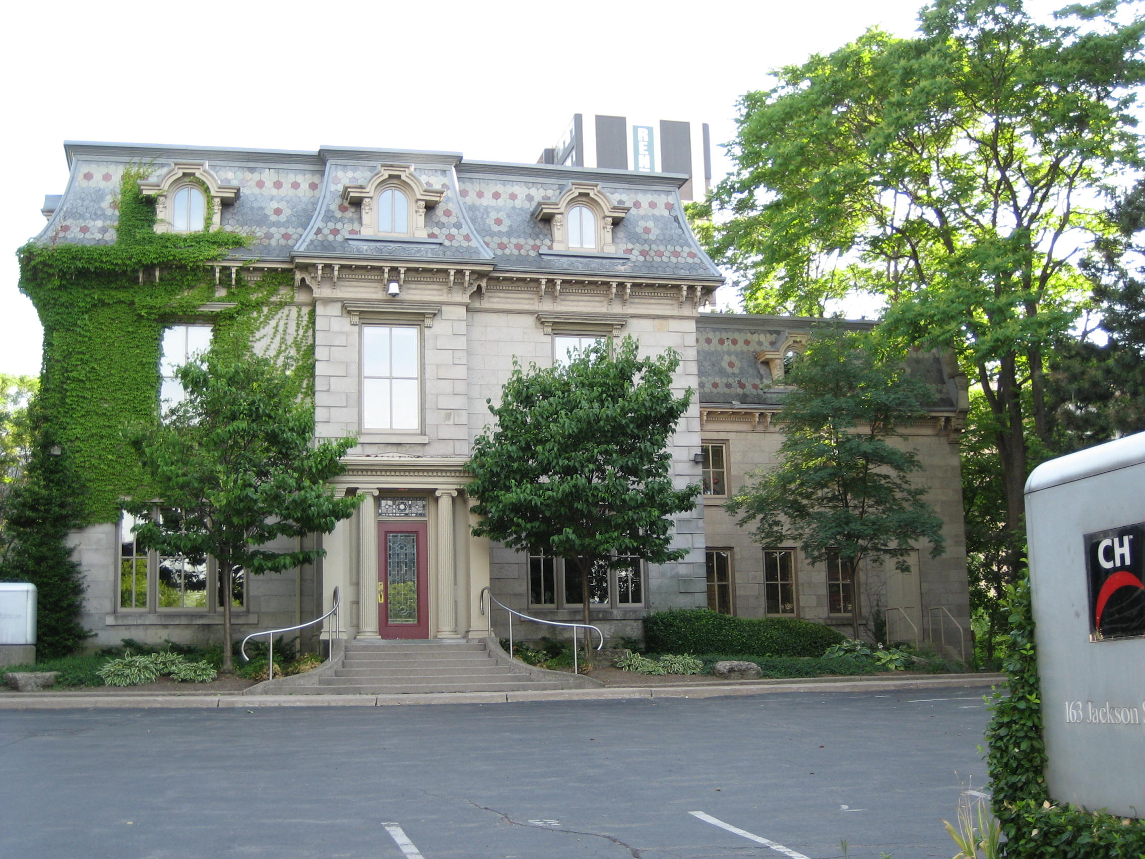 CH TV 11 Studio Building, Jackson & Caroline Streets, Hamilton, Ontario